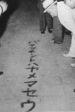 Japanese Empire propaganda slogan "Stop the Permanent wave!"